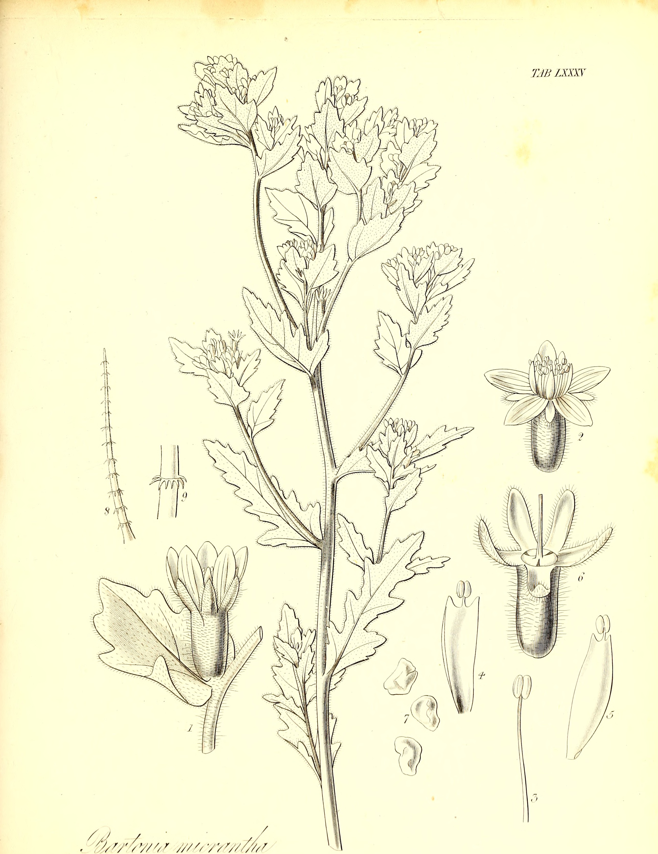 Title: The botany of Captain Beechey's voyage; comprising an acount of the plants collected by Messrs. Lay and Collie, and other officers of the expedition, during the voyage to the Pacific and Behring's Strait, performed in His Majesty's ship Blossom, under the command of Captain F. W. Beechey ... in the years 1825, 26, 27, and 28 Year: 1841 (1840s) Authors: Hooker, William Jackson, Sir, 1785-1865; Arnott, George Arnott Walker, 1799-1868, joint author; Beechey, Frederick William, 1796-1856 Subjects: Blossom (Ship); Botany; Botany; Botany Publisher: London, H. G. Bohn Text Appearing Before Image: ' Text Appearing After Image: '